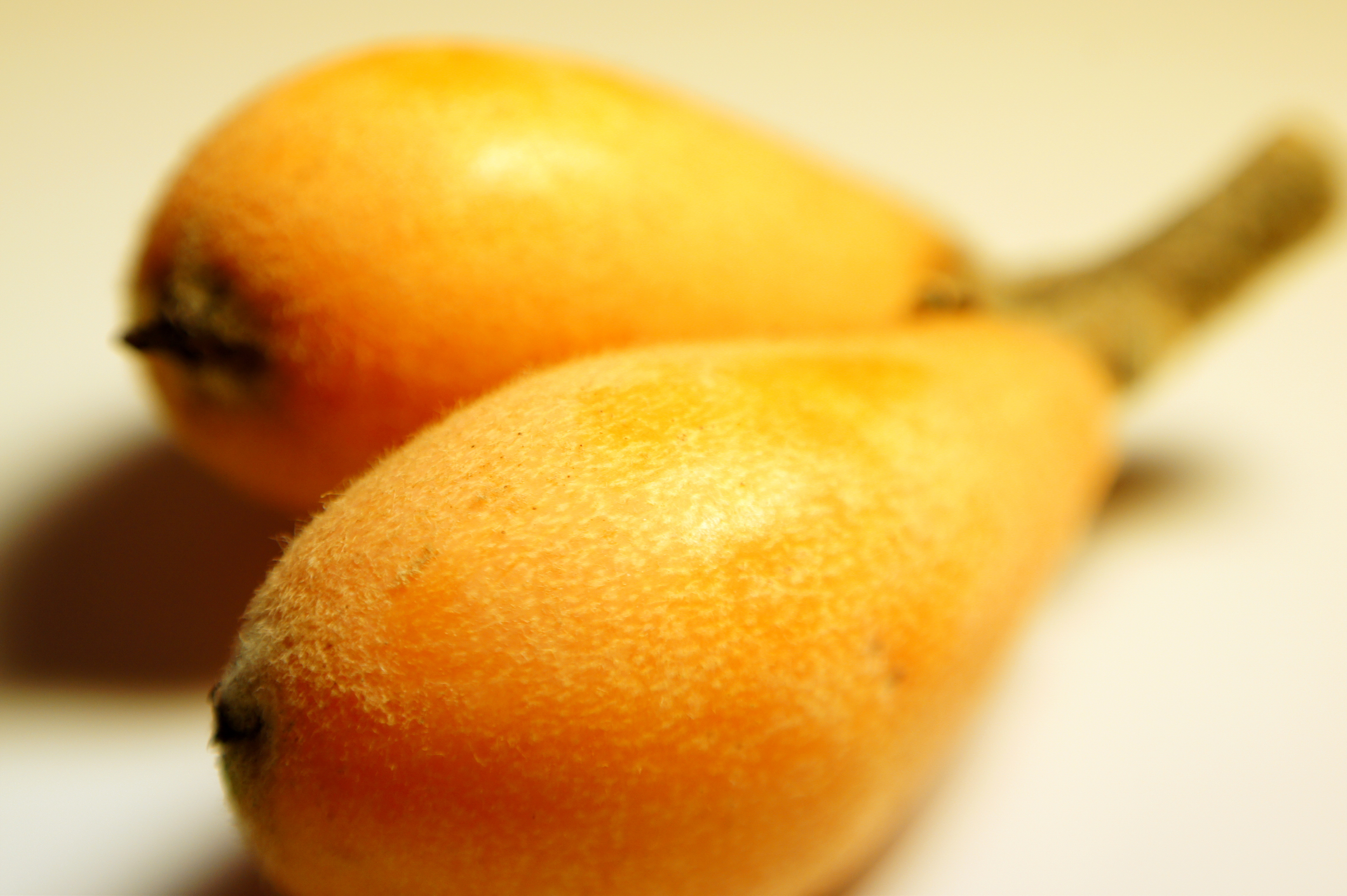 Close-up photo of Eriobotrya japonica